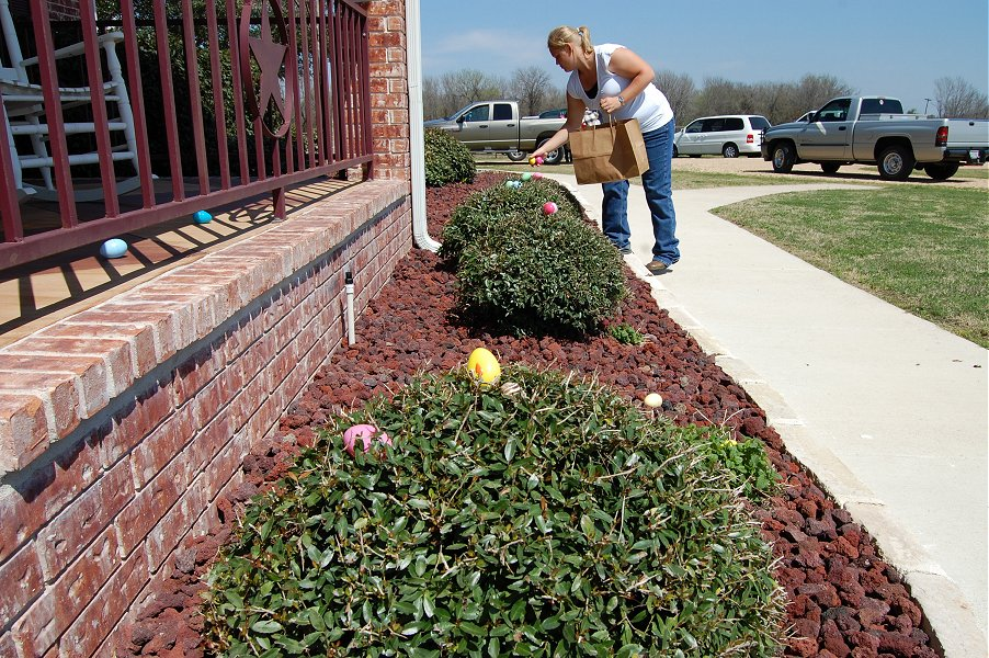 A young woman hides Easter eggs for children to find.